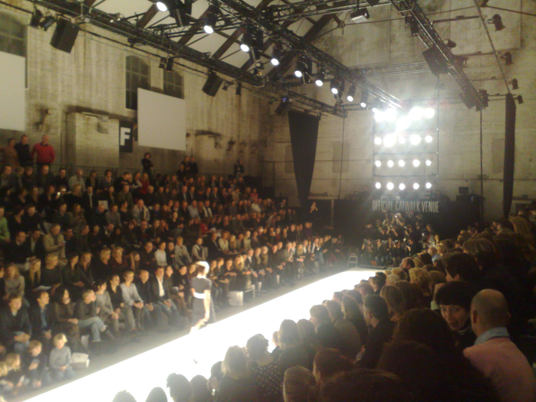 Catwalk for the Amsterdam Fashion Week 2010 at Westergasfabriek